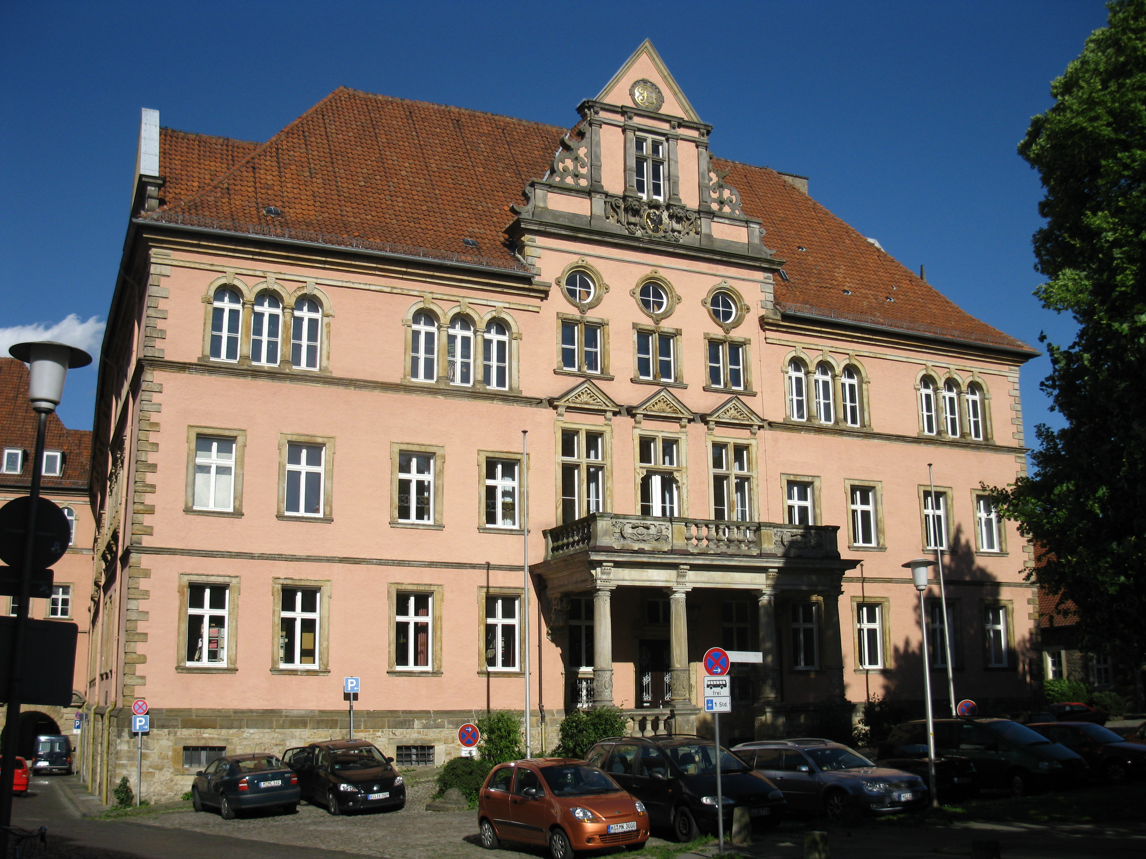 Administration building, Domhof, Hildesheim